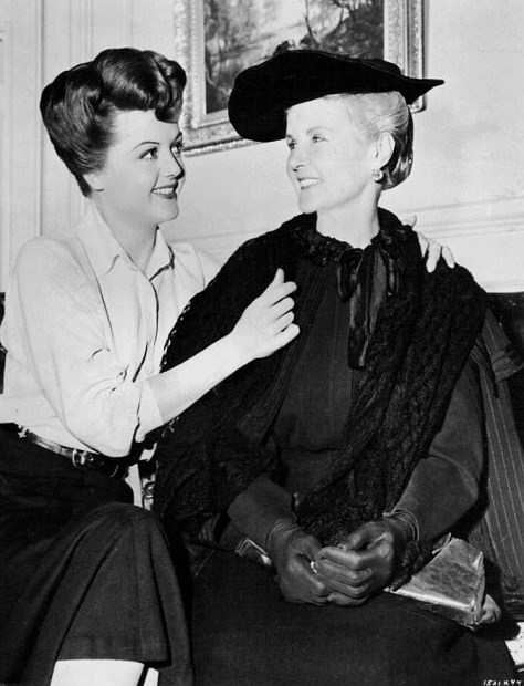 Angela Lansbury (left) and her mother Moyna MacGill, on the set of Kind Lady (1951) - publicity still